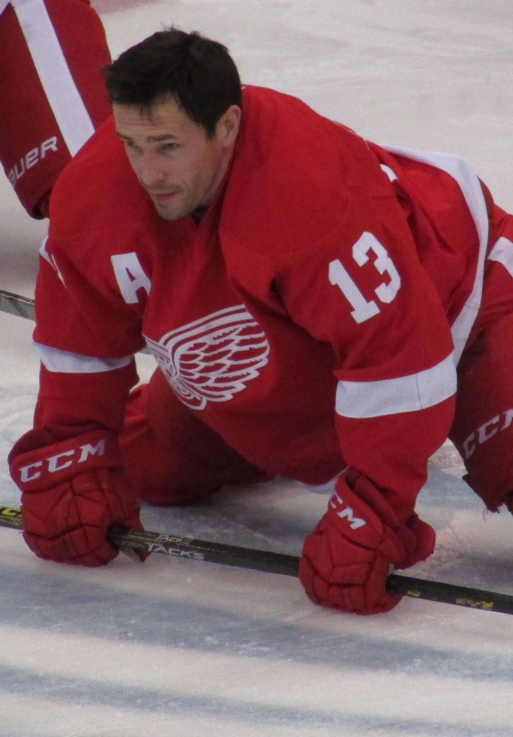 Detroit Red Wings alternate captain Pavel Datsyuk exercising before a game against the Edmonton Oilers on March 9th, 2015 at Joe Louis Arena.